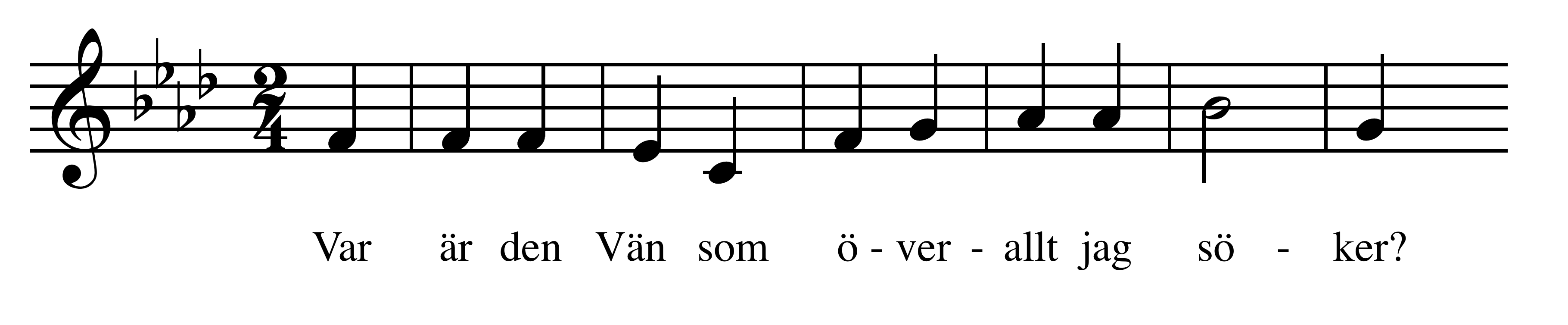 Var_är_den_vän_(Crüger_1)